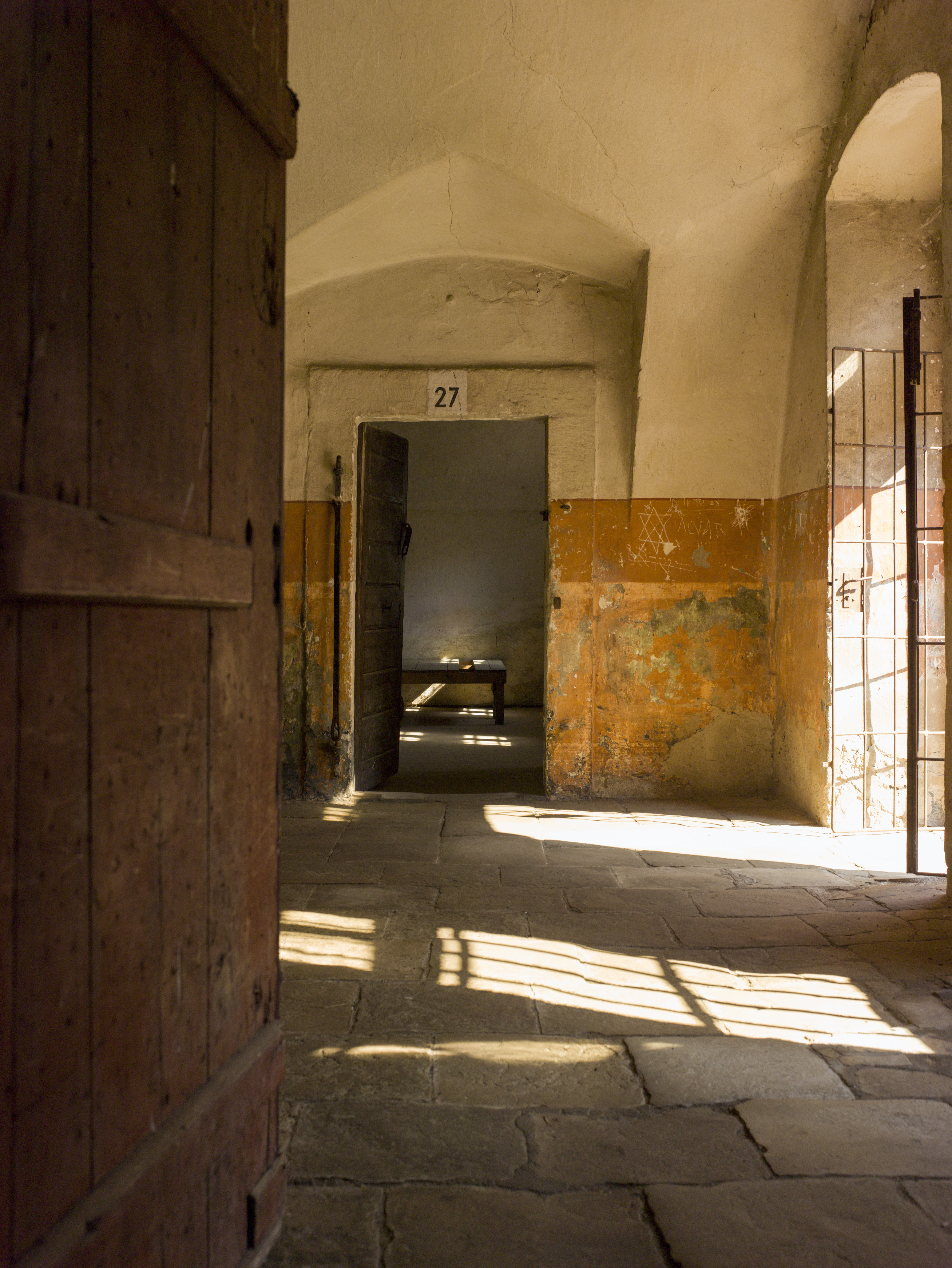 Theresienstadt concentration camp view of cell 27 from inside cell 28.